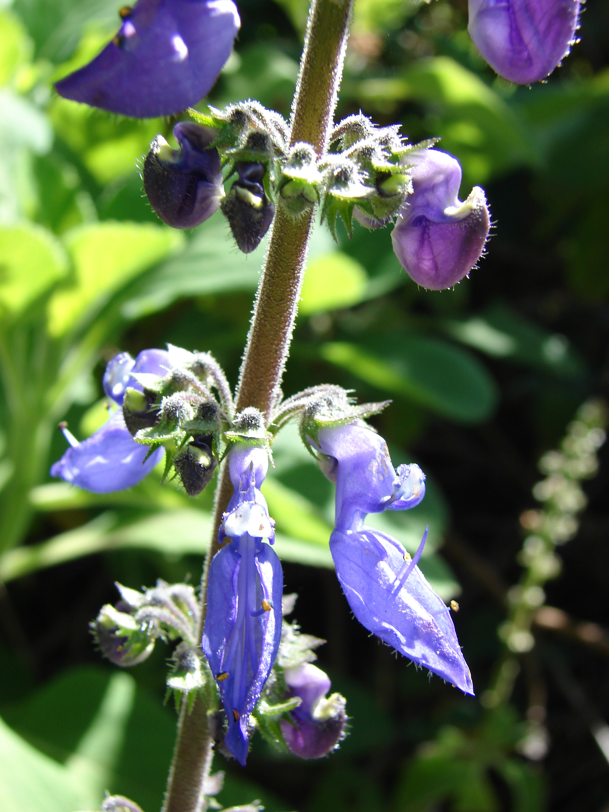 Plectranthus amboinicus (flowers). Location: Maui, Enchanting Floral Gardens of Kula